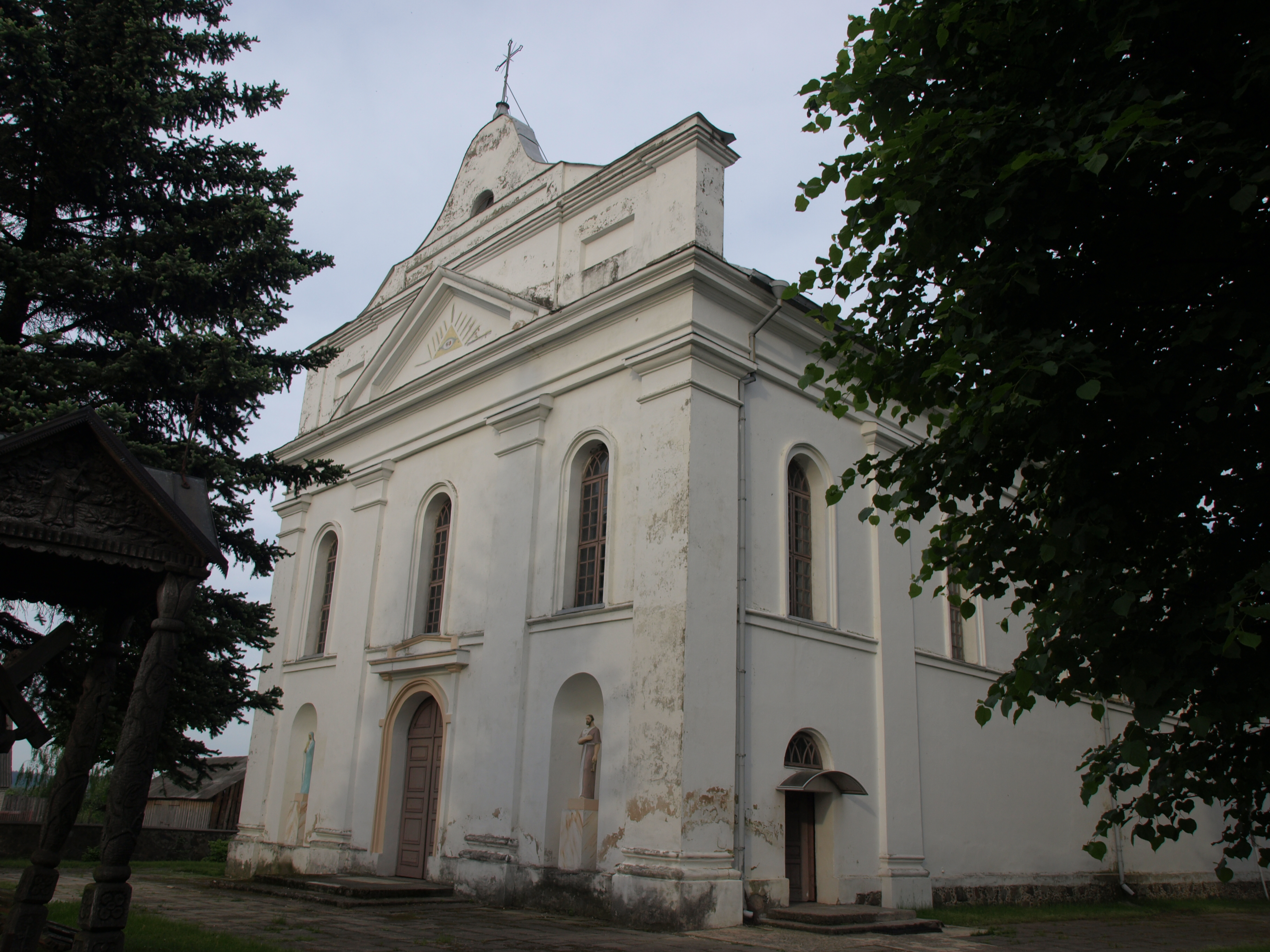 Darsūniškis church, Kaišiadorys district, Lithuania